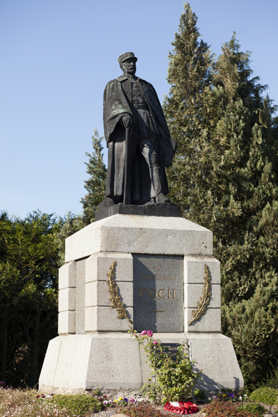 Monument au Maréchal Foch. Bouchavesnes-Bergen. Hauts-de-France, Somme. France. . Cultural heritage; Cultural heritage|Monuments|War memorial; Europe|France|Hauts-de-France|Somme|Albert; Europe|France|Hauts-de-France|Somme|Bouchavesnes-Bergen. photo: Paul M.R. Maeyaert. . © Paul M.R. Maeyaert; . Ref: PM_113178_F_Bouchavesnes_Bergen